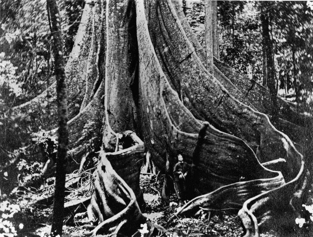 Person standing at the base of a large fig tree, Fig Tree Pocket, Brisbane, 1866 The trunk of an immense fig tree in the scrub fringing the Brisbane River at Fig Tree Pocket. A person appears to be standing at the base of the tree. The photographer was Mr. G.W. Sweet of South Brisbane. (Description supplied with photograph.).